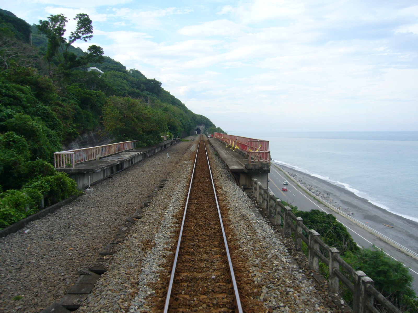 Taiwan Railway Administration Duo-Liang Station.